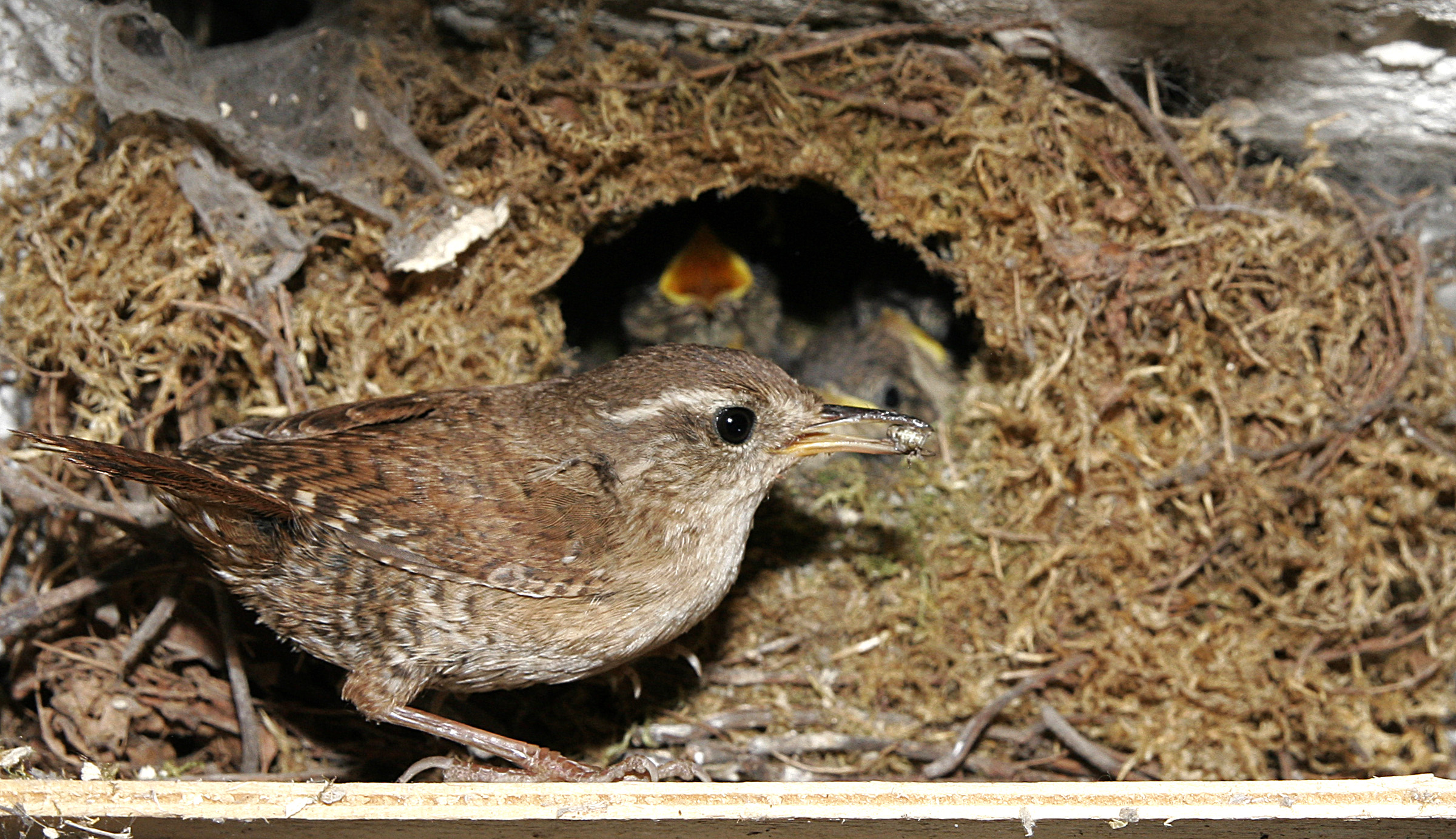 Winter Wren (Troglodytes troglodytes), adult with an insect, picture taken on May 5th, 2007 in Bensheim (Germany).